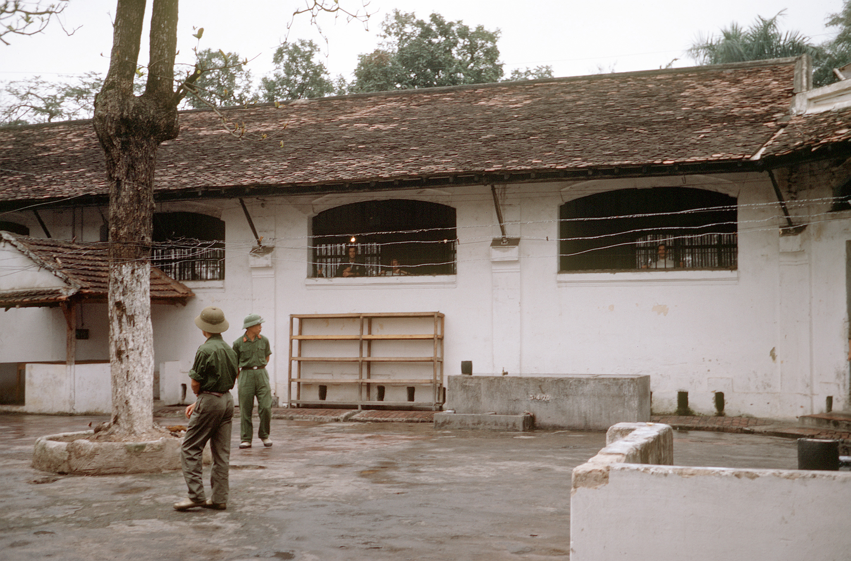 Exterior view of the prisoner of war camp ("Hanoi Hilton").